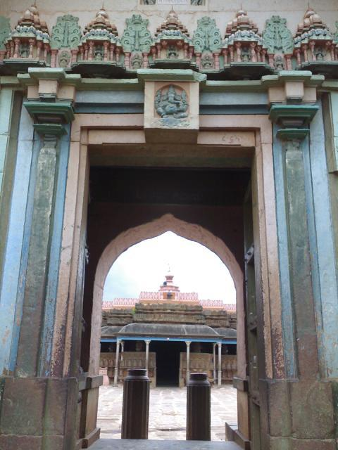 Shambhulinga temple Kundagol Source and Author : Manjunath Doddamani, Gajendragad / Hubli, Karnataka(North), India.